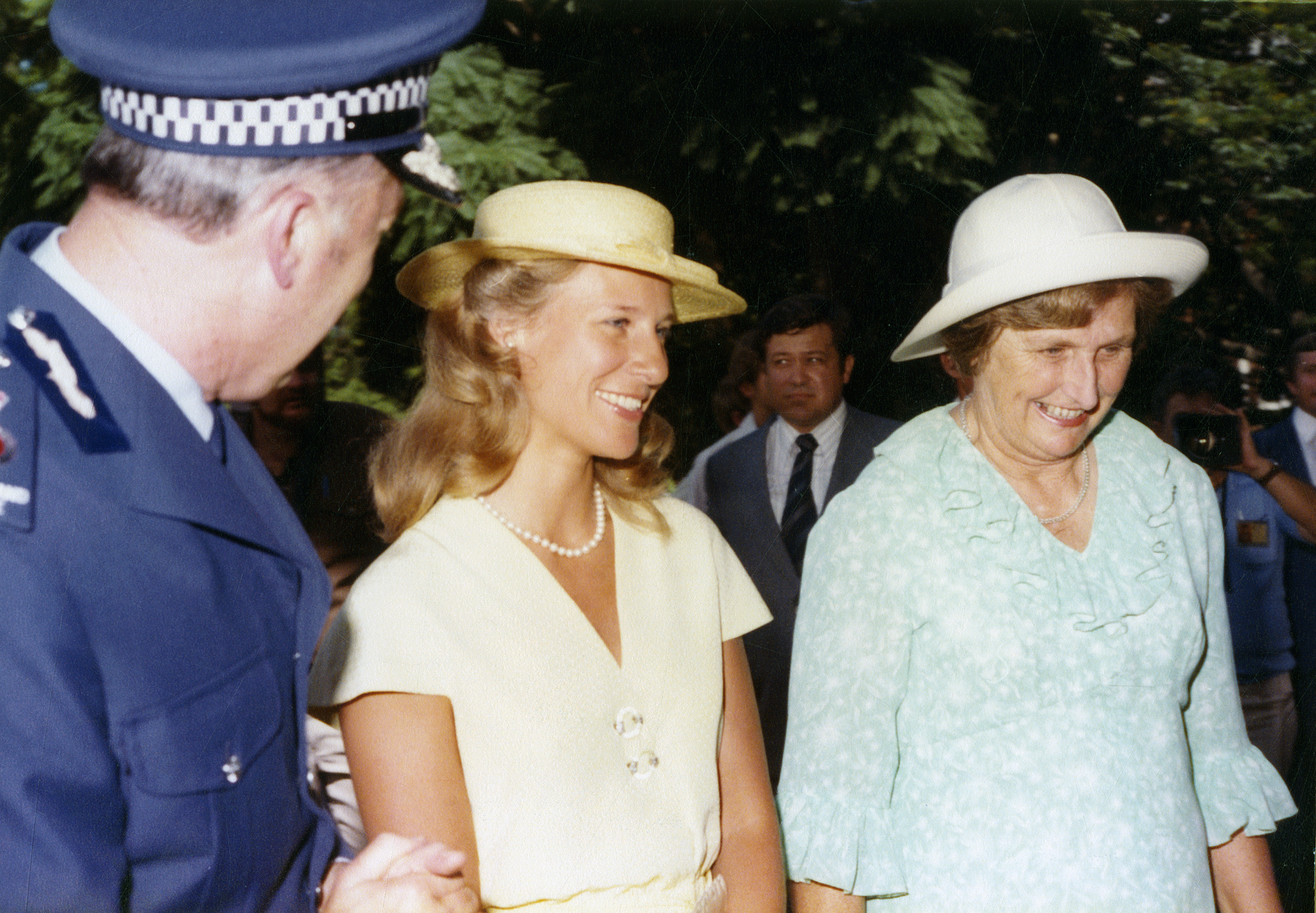 Queensland State Archives Digital Image ID 7982